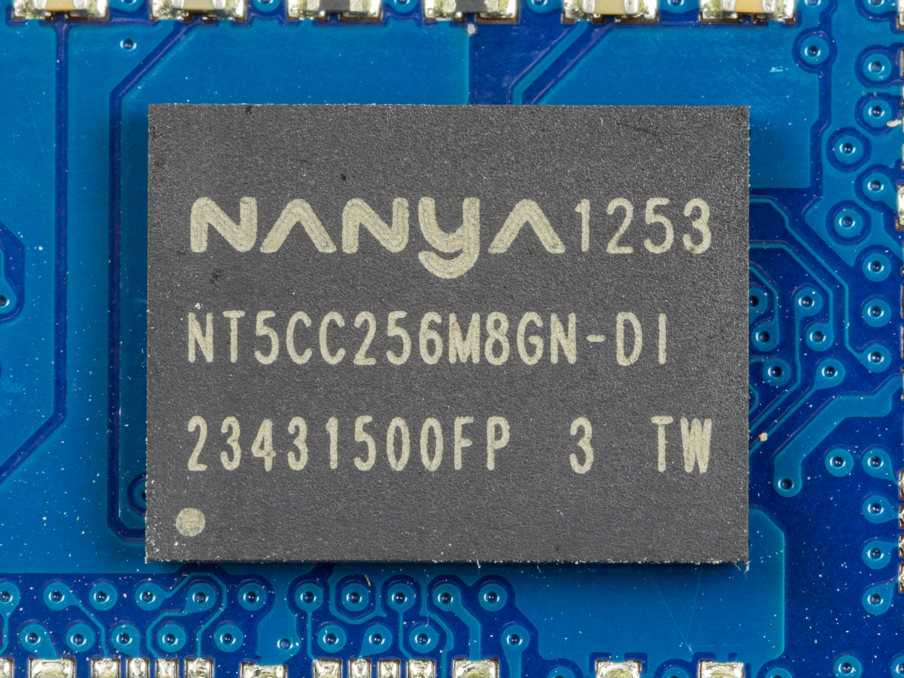 Kingston ACR16D3LS1NGG/4G - Nanya NT5CC256M8GN-DI - 2Gb DDR3 SDRAM G-Die